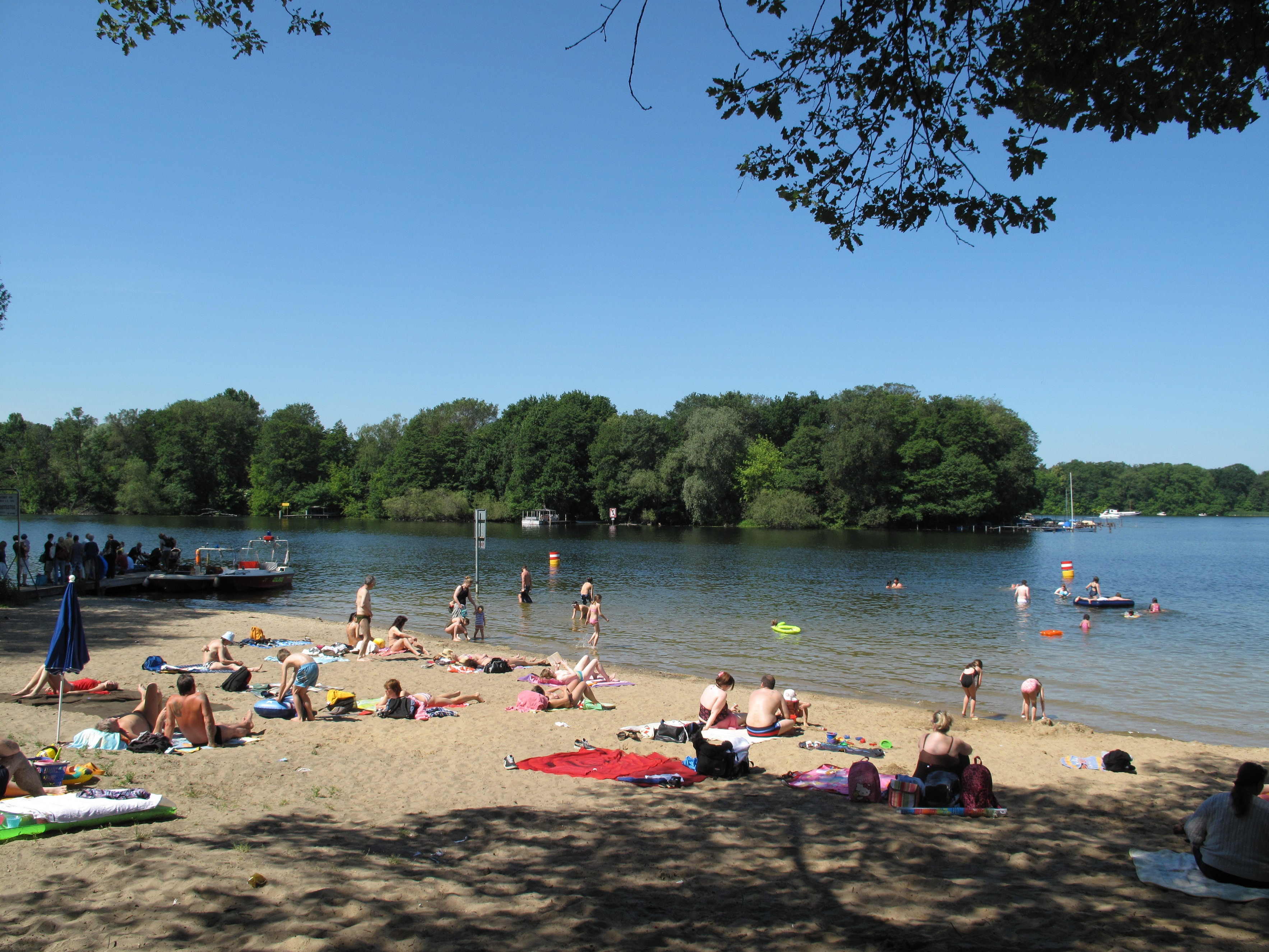 View from the beach at the eastern bank of the Lake Tegel to the island Reiswerder in Berlin. In the background on the right the island Baumwerder.